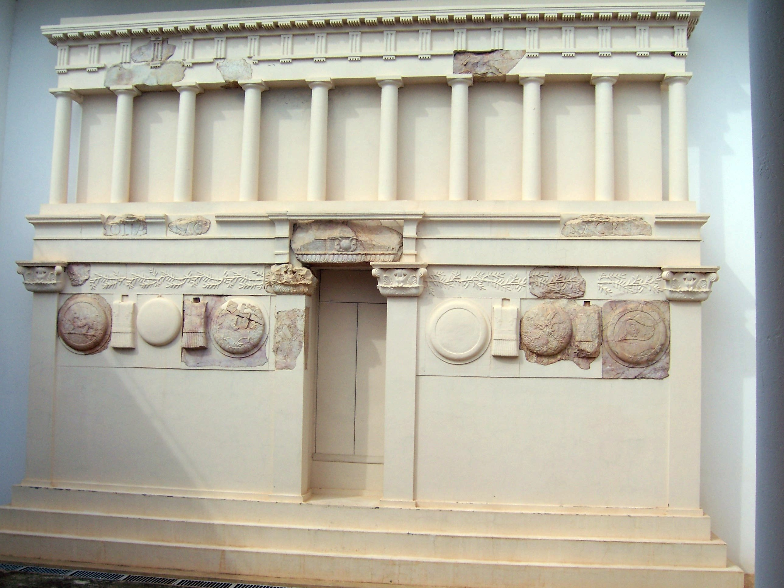 Open court where a few remains have been placed into a reconstructed Numidian monument from 130 CE, probably commemorating Masinissa. It is believed to have been built by the command of Micipsa.